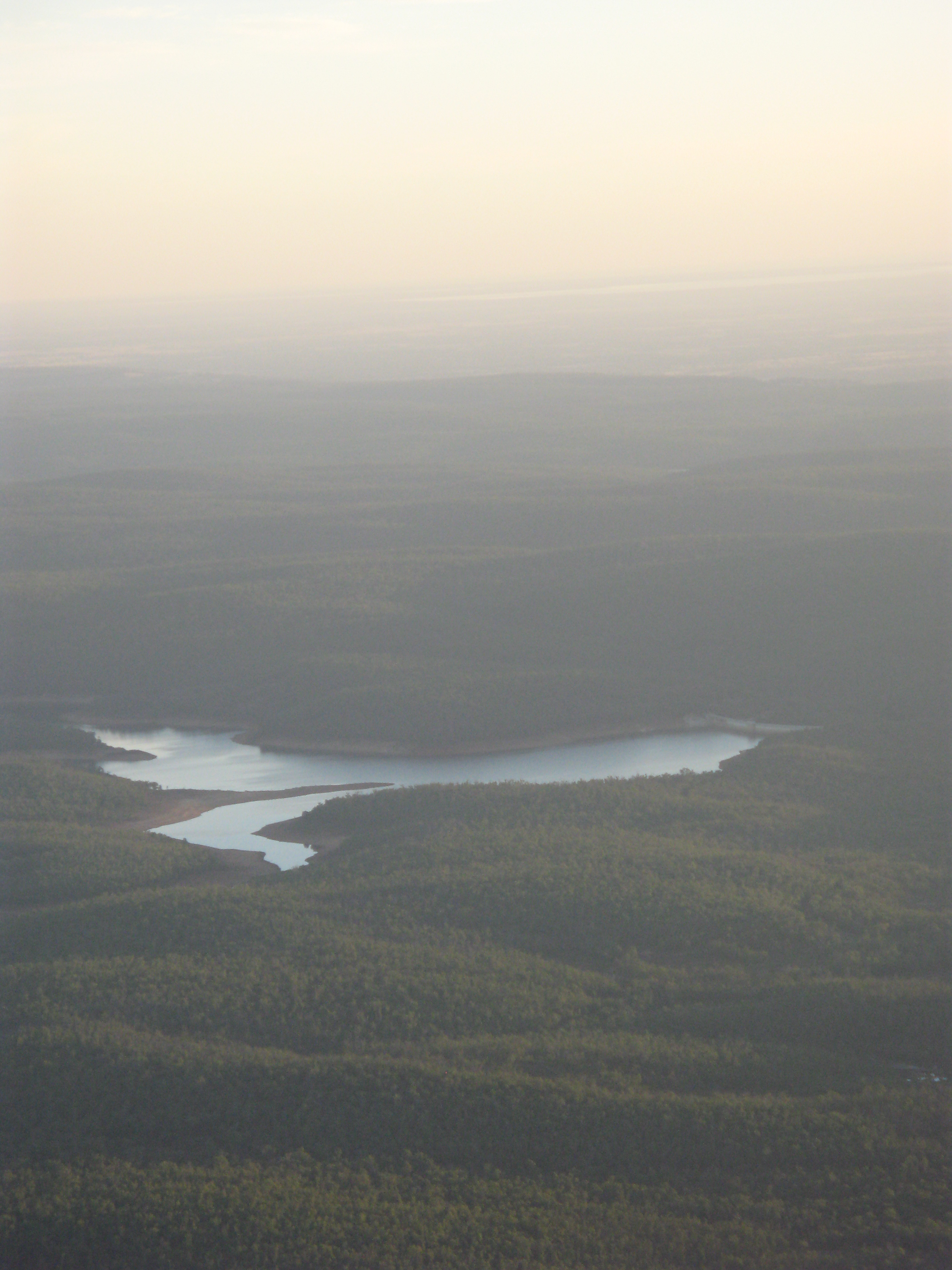 Lake C. Y. O'Connor, man made lake resulting from the construction Mundaring Weir. viewed from the air looking south. Photo taken by myself in March 2010.